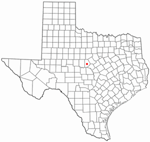 Locator map of Brownwood — the county seat of Brown County, in central Texas. Credits